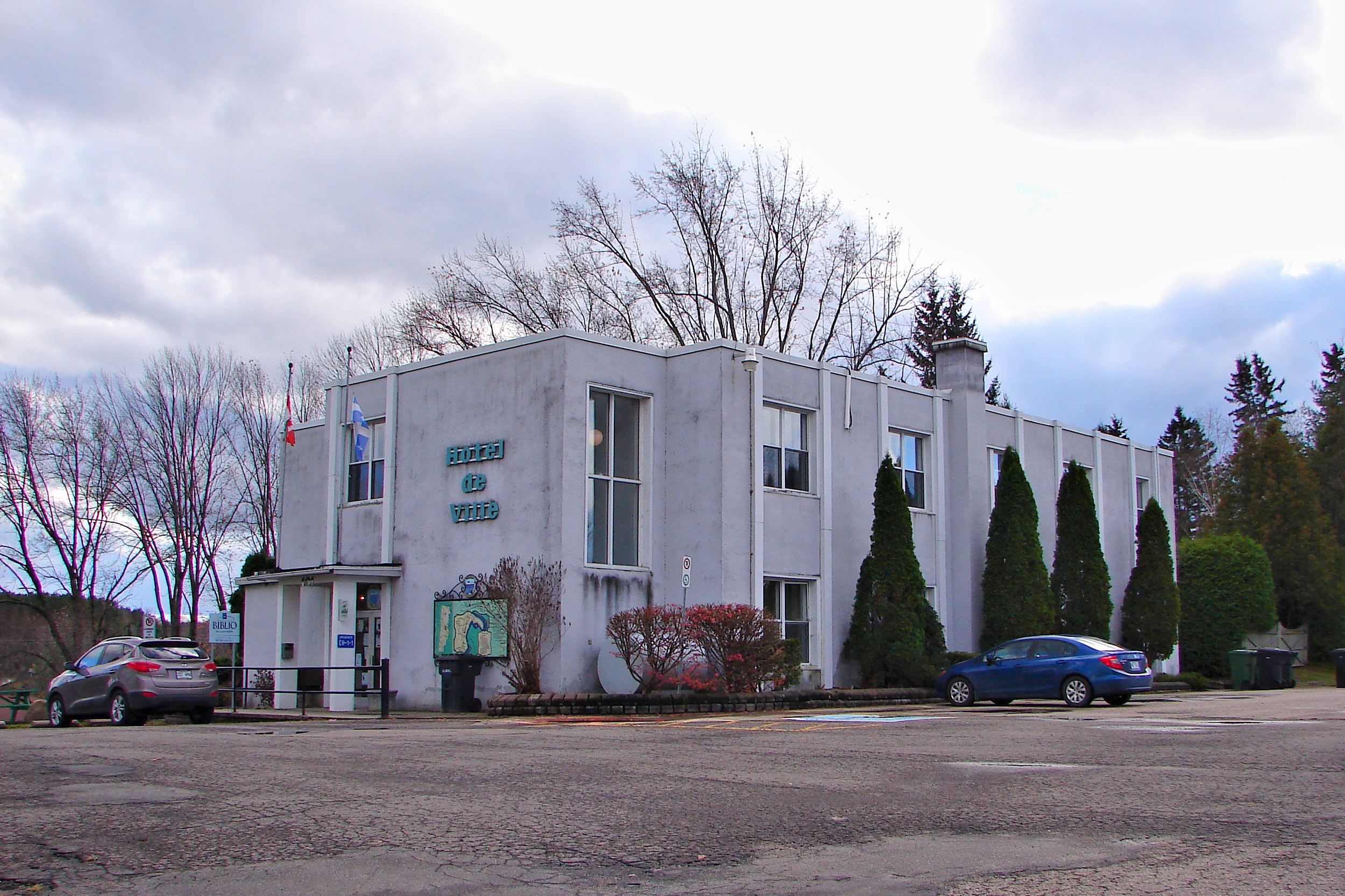 Town hall of Huberdeau, Quebec, Canada